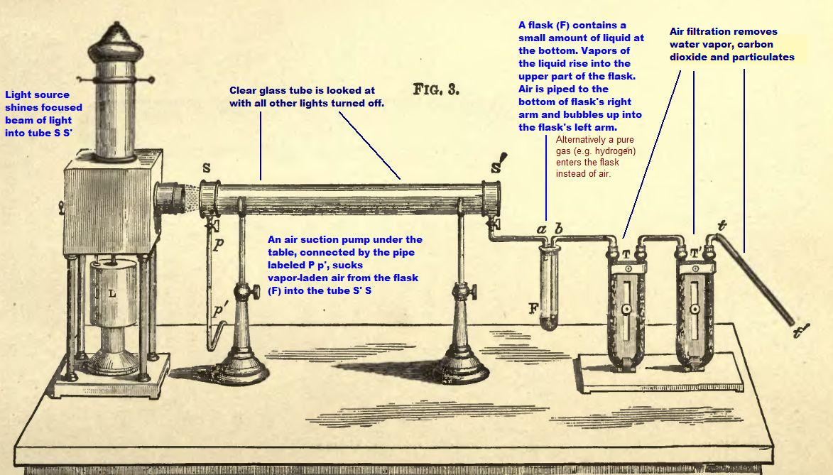 John Tyndall's illustration of his setup for looking at aerosols (1868), subsequently annotated in colored typeface. The above apparatus is meant to be looked at in a dark room, i.e., a room with no light except for the illuminated glass tube at the center of the picture. Its basic idea is to bring a chemical vapor into the illuminated glass tube by a suction pump (the suction pump is under the table). The illustration dates from 1868. With this apparatus John Tyndall found that a variety of vapors, initially clear and transparent to light, became cloudy with more exposure to the light due to chemical decomposition of the vapor molecules. He verified that it was the light itself that caused this decomposition. The chemical reaction in response to the light was in some cases rapid (e.g. when the vapor was amyl nitrite) and in other cases very gradual (e.g. when the vapor was isopropyl iodide). Some vapors formed white clouds, others formed blue or purple clouds. The clouds took on distinctive shapes and swirled in "paroxysms of motion", in some cases. Tyndall demonstrated that the particular wavelengths that produced a photochemical decomposition depended on the particular type of vapor molecule that was decomposed, although in all cases the light was predominantly or exclusively in the blue and near UV area. Tyndall uses these photochemical reactions as context for talking about the question of the mechanism by which molecules absorb radiant energy. The illustration is in Tyndall's report "New Chemical Reactions Produced by Light" (1868) and again in Tyndall's "On the Action of Rays of High Refrangibility upon Gaseous Matter" (1870). It is also included in the later editions of his book Heat as a Mode of Motion even though it is not a heat phenomenon.